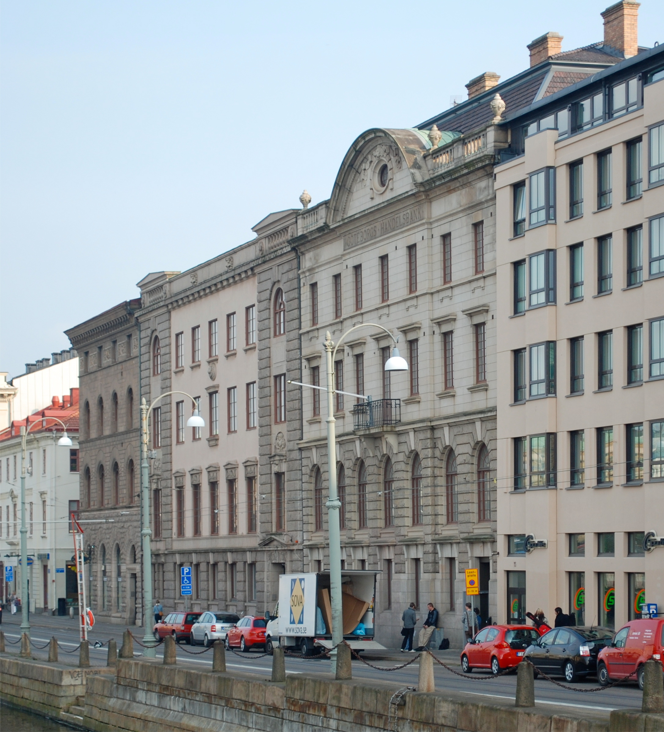 The former offices of Göteborgs handelsbank (Commercial Bank of Gothenburg) at Södra Hamngatan in Gothenburg, Sweden.